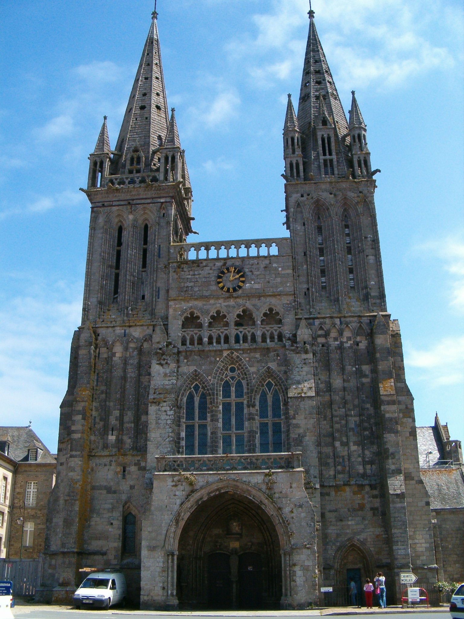 Saint Pol Aurelian cathedral, Kastell Paol, Finistere, Brittany